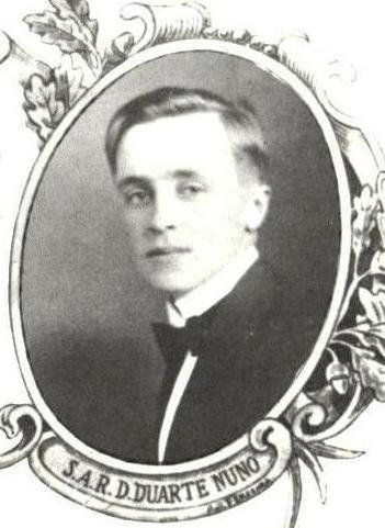 Duarte Nuno de Bragança (1907-1976) (Paris Treaty between D. Manuel II of Portugal and D. Duarte Nuno of Bragança)